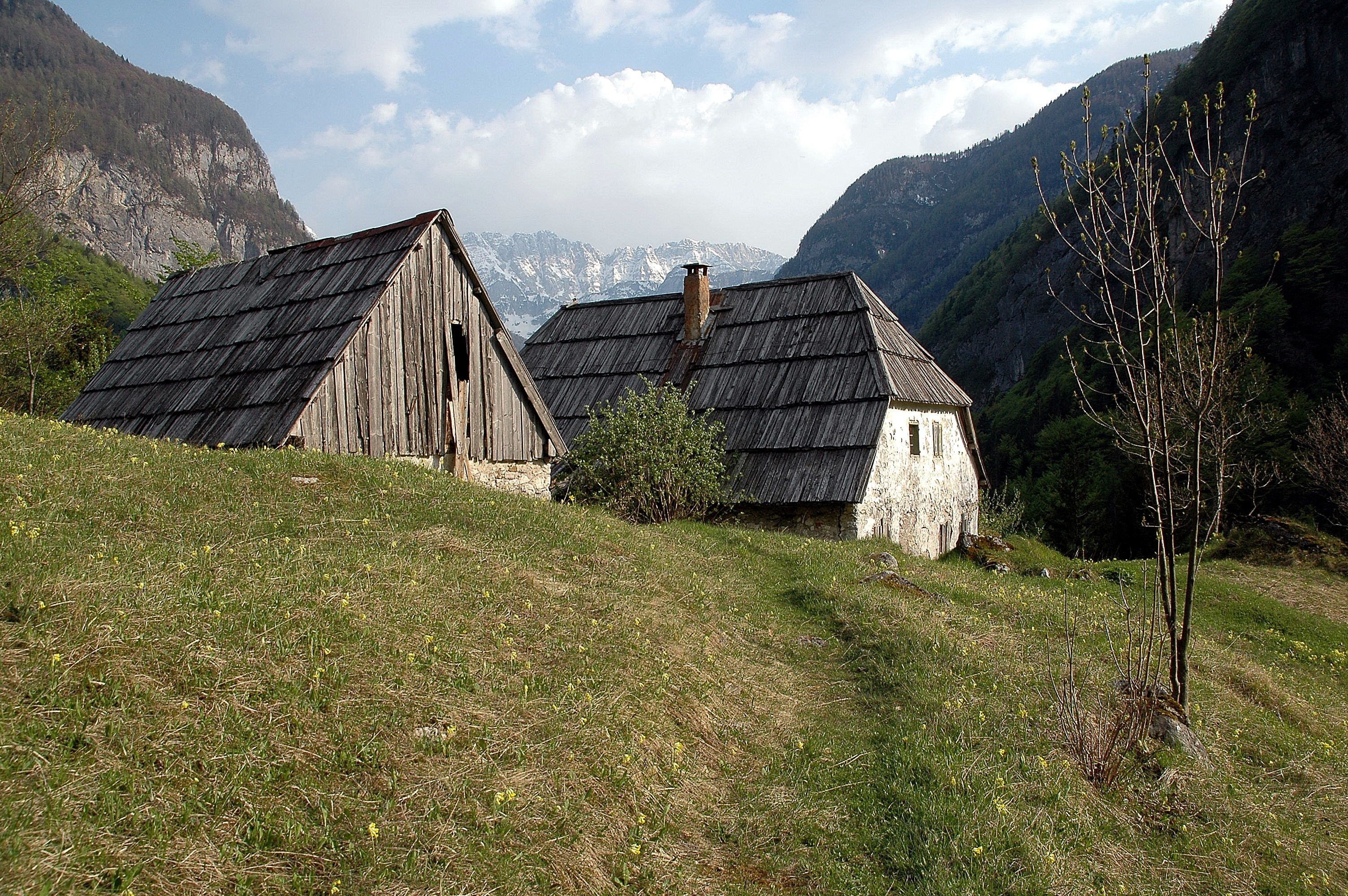 Traditional farmhouse in the upper Soča (Isonzo), Trenta, Triglav National Park, Slovenia